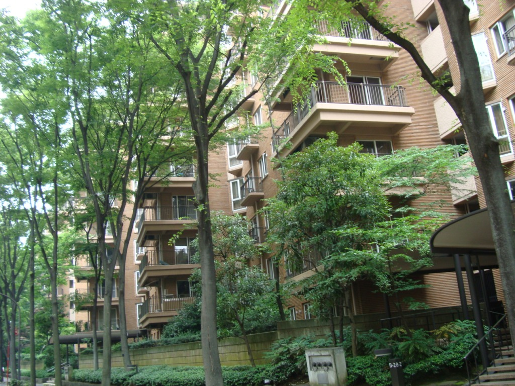 The East Hill section, Hiroo Garden Hills complex, Shibuya city, Tokyo